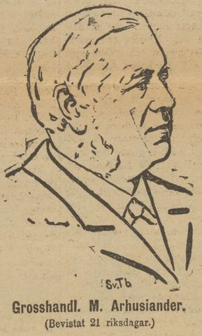 Engraving of the Swedish politician Magnus Arhusiander (1829-1908), by an anonymous artist. Published in the newspaper Göteborgs Aftonblad 1901-06-15 (137A), p. 3.